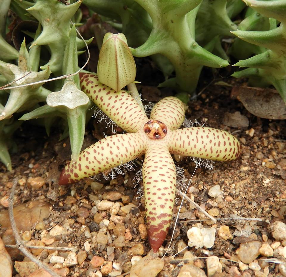 Orbea maculata (N.E. Br.) L.C. Leach - in Mopane scrub, Mabalane district, Gaza province of Mozambique